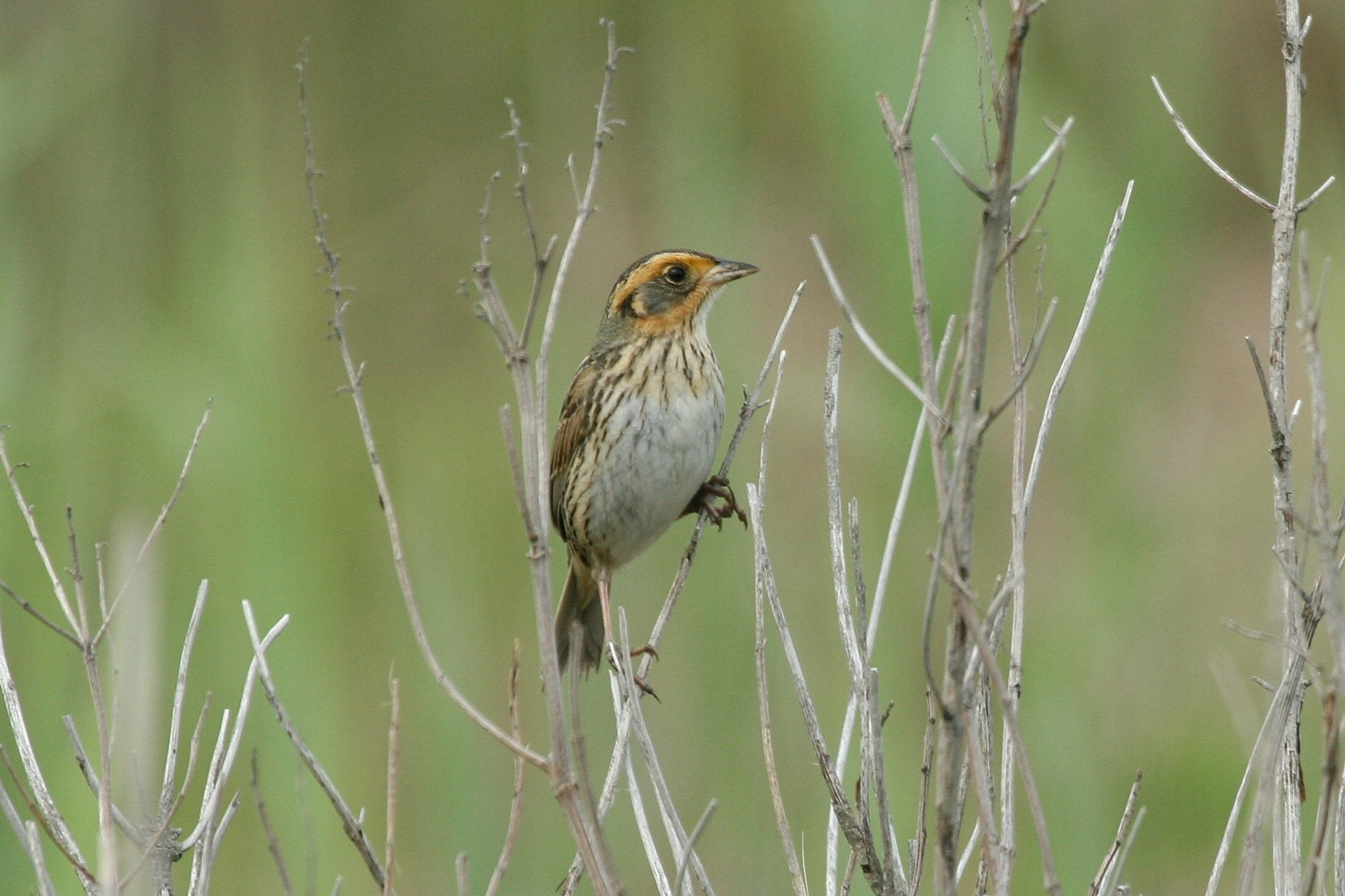 Saltmarsh Sparrow (Ammodramus caudacutus)